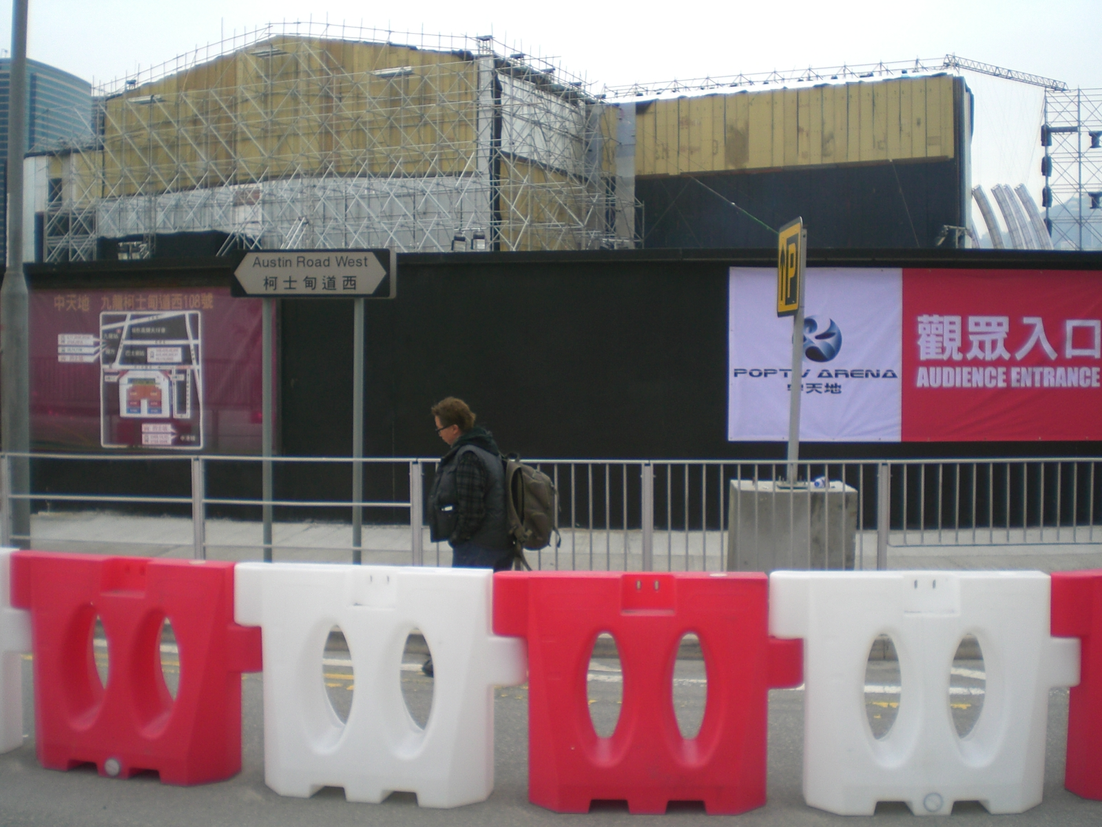 香港西九龍西九龍文娛藝術區-維港巨幕柯士甸道西張學友音樂會 & 水馬, Austin Road West, West Kowloon Cultural District